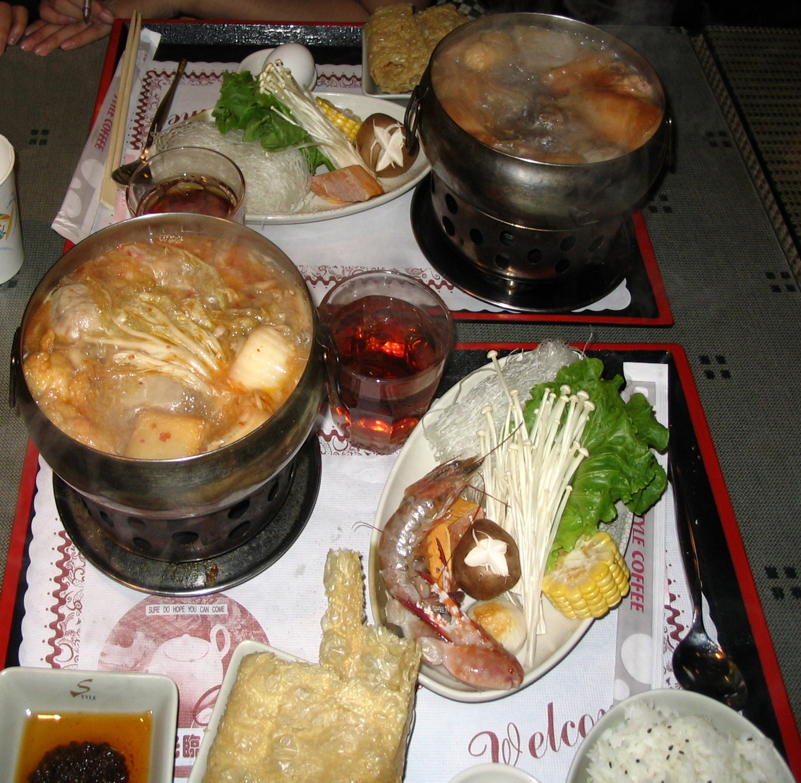 Hot pot in a Taiwanese restaurant